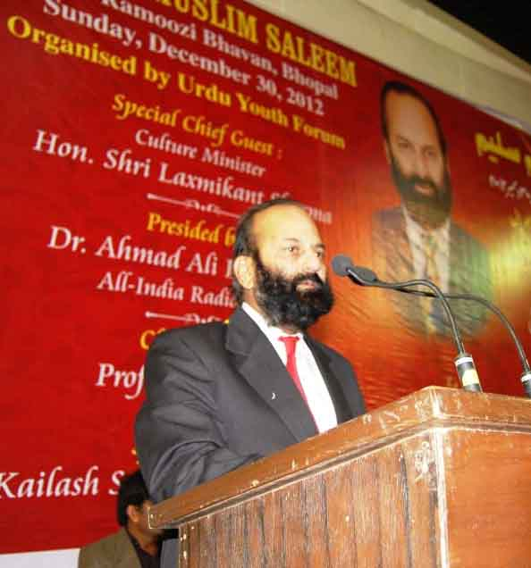 Muslim Saleem is pioneer Urdu Poet and Media person from Bhopal